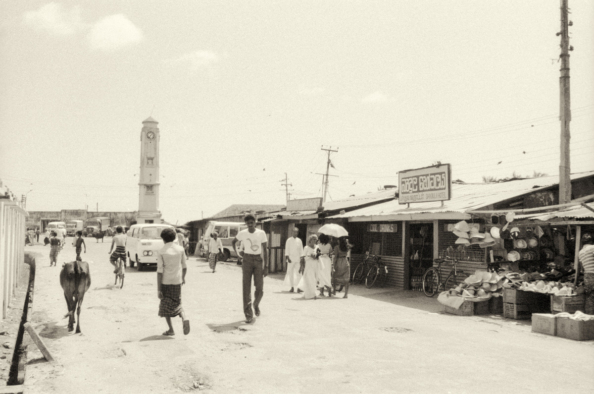 streetlife Trincomalee, Watchtower